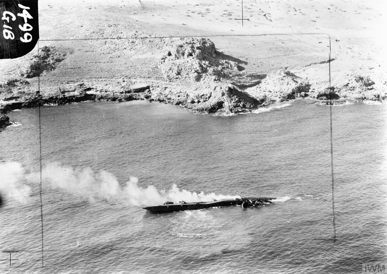 German submarineType VIIC, U-617, on fire and lying on her port side after being beached off the Moroccan coast near Melilla, as a result of damage sustained in an attack by two Gibraltar-based Vickers Wellington Mark VIIIs of No. 179 Squadron RAF, in the early morning of 12 September 1943. Photograph taken from a Lockheed Hudson of No. 48 Squadron RAF, one of a number of aircraft subsequently despatched from Gibraltar to continue the attack. All of U-617's crew reached shore safely, and she was eventually destroyed by Royal Naval gunfire.